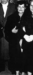 María Padín-actriz